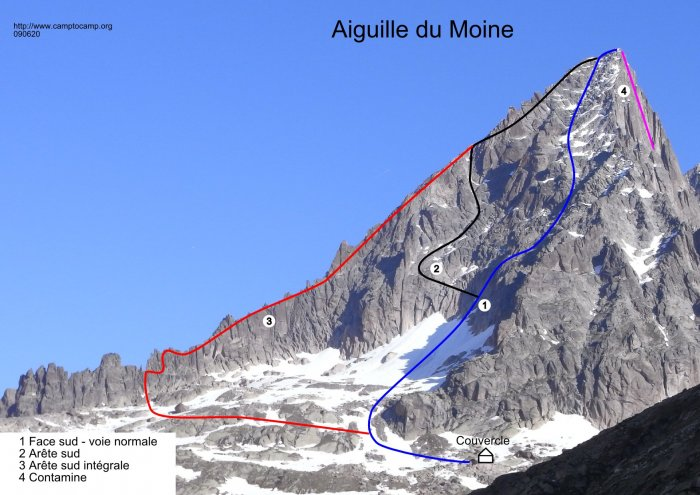 Route on the aiguille du Moine